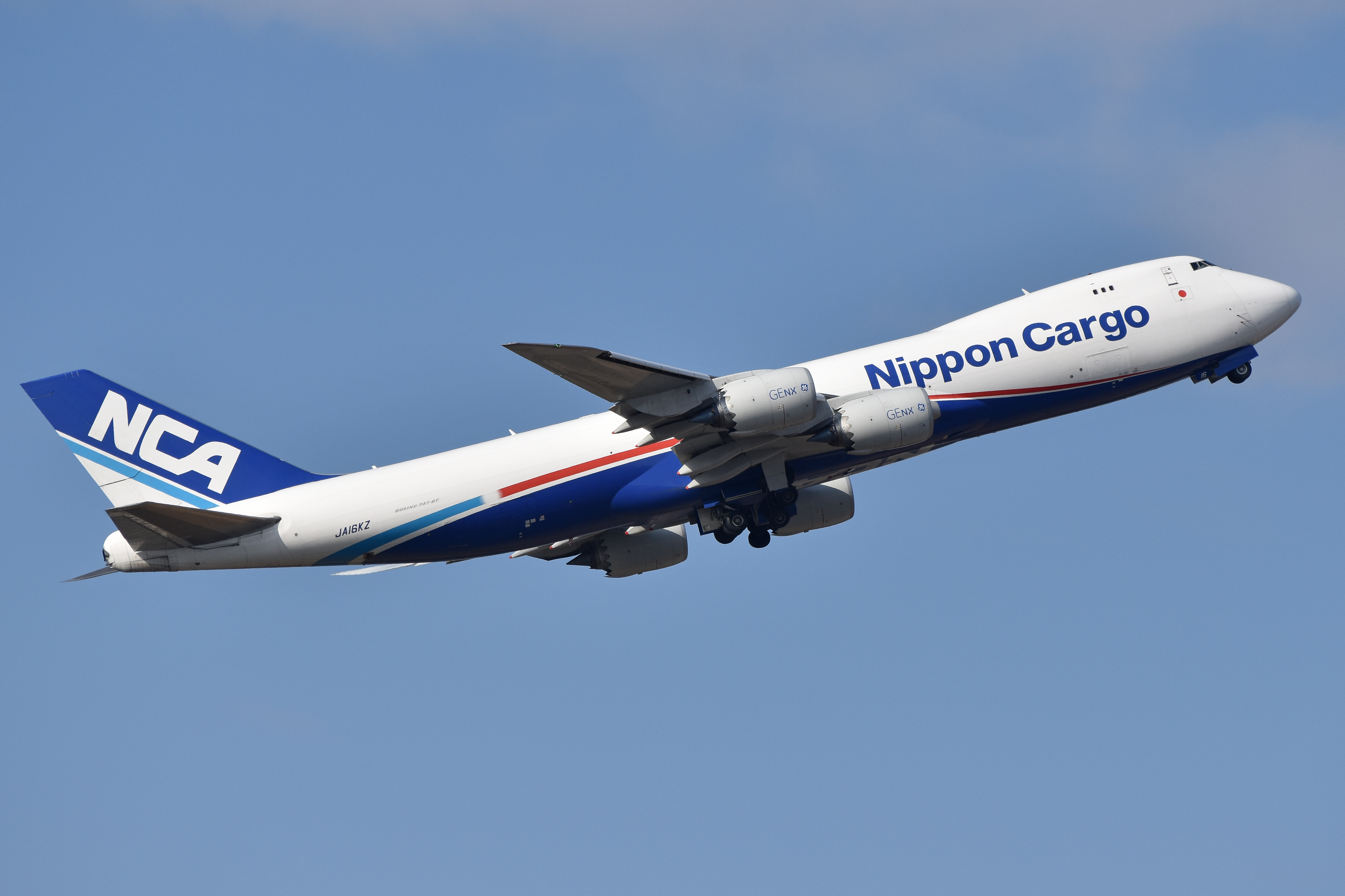 c/n 37393, l/n 1485 Built 2014 Seen departing on flight KZ207 / NCA207 to Hong Kong. Narita International Airport Tokyo, Japan 17th March 2019